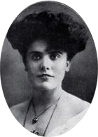 Dora Boothby, English badminton and tennis player